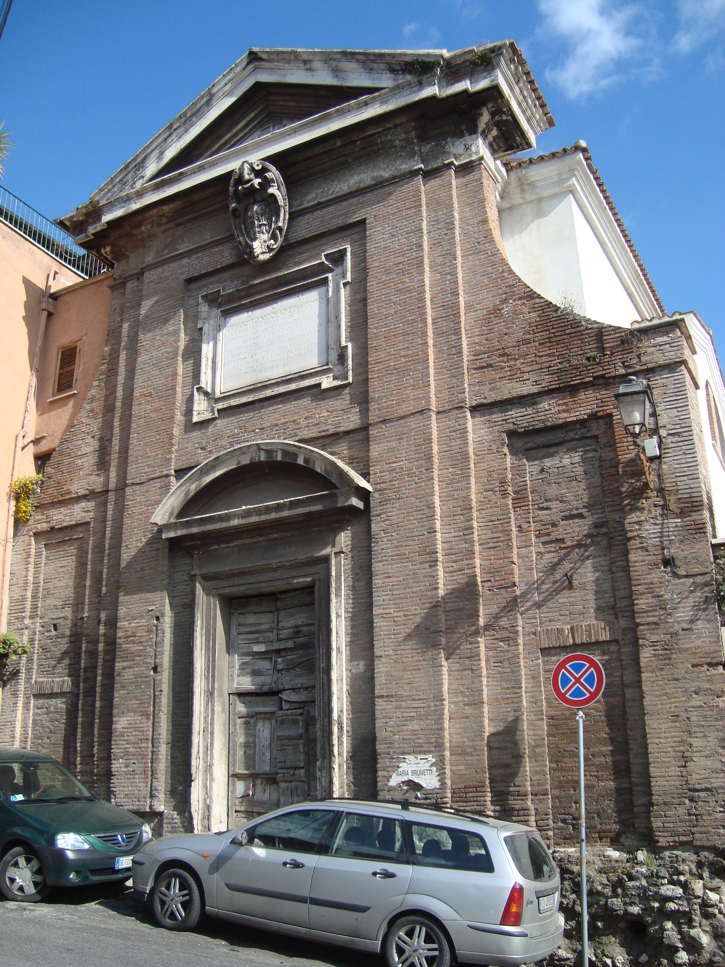 Church San Nicola in Tivoli